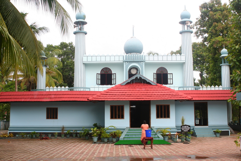 Photograph By Shahin Olakara(